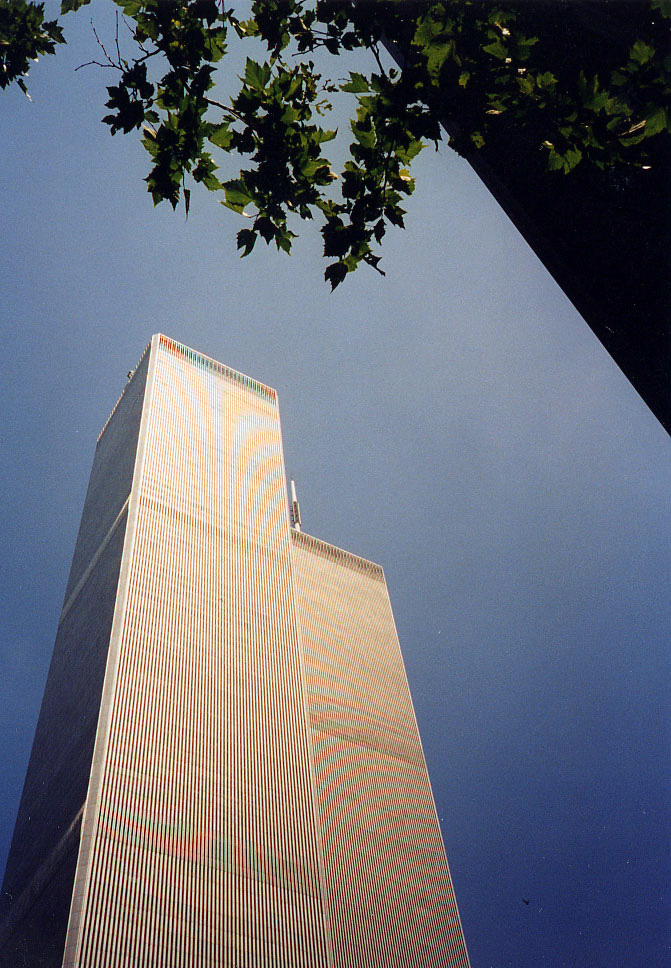 World Trade Center viewed the ground